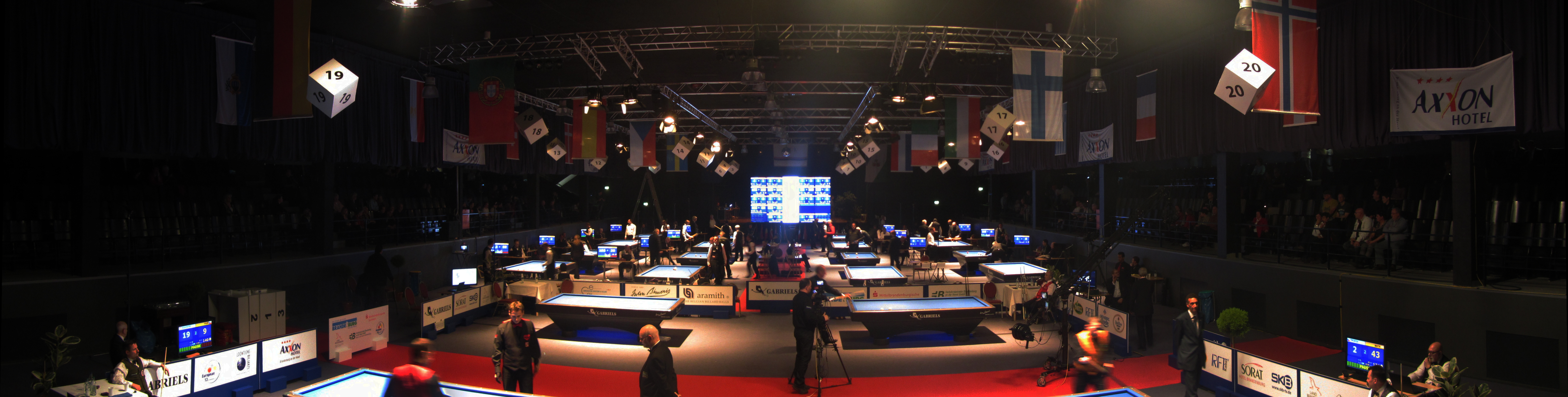 2013 European Carom Billiards Championship in Brandenburg/Havel, Germany.